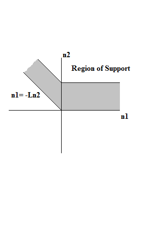 An example of multidimensional Z transform